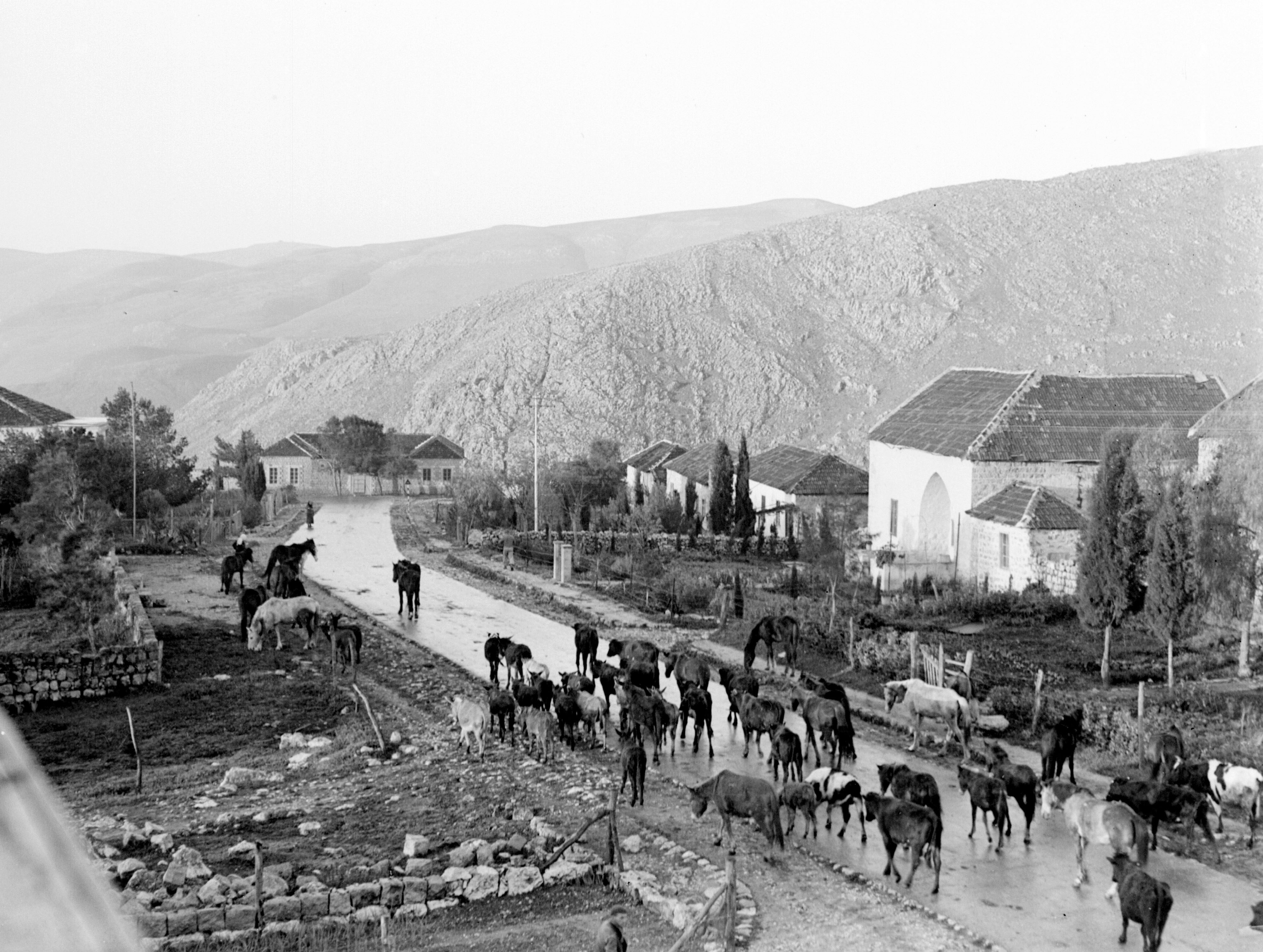 METULA. מראה כללי של היישוב מטולה בגליל.